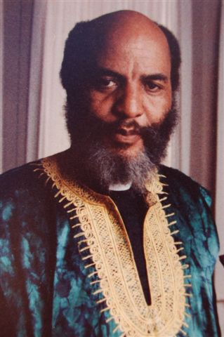 Reverend James Bevel, former Director of Direct Action and Director of Nonviolent Education of the Southern Christian Leadership Conference